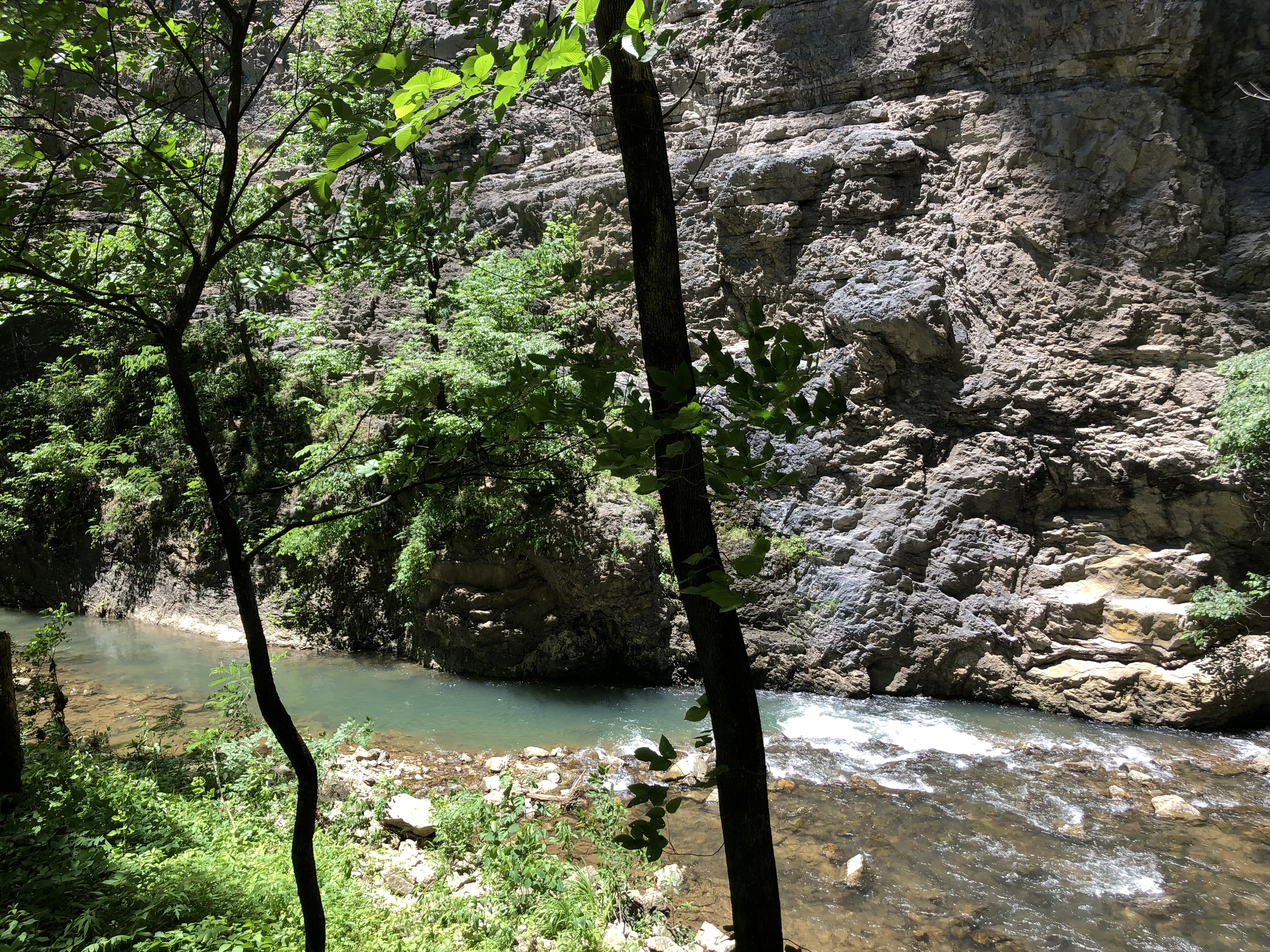 View across Stock Creek just south of the Natural Tunnel from the Tunnel Trail within Natural Tunnel State Park in Scott County, Virginia